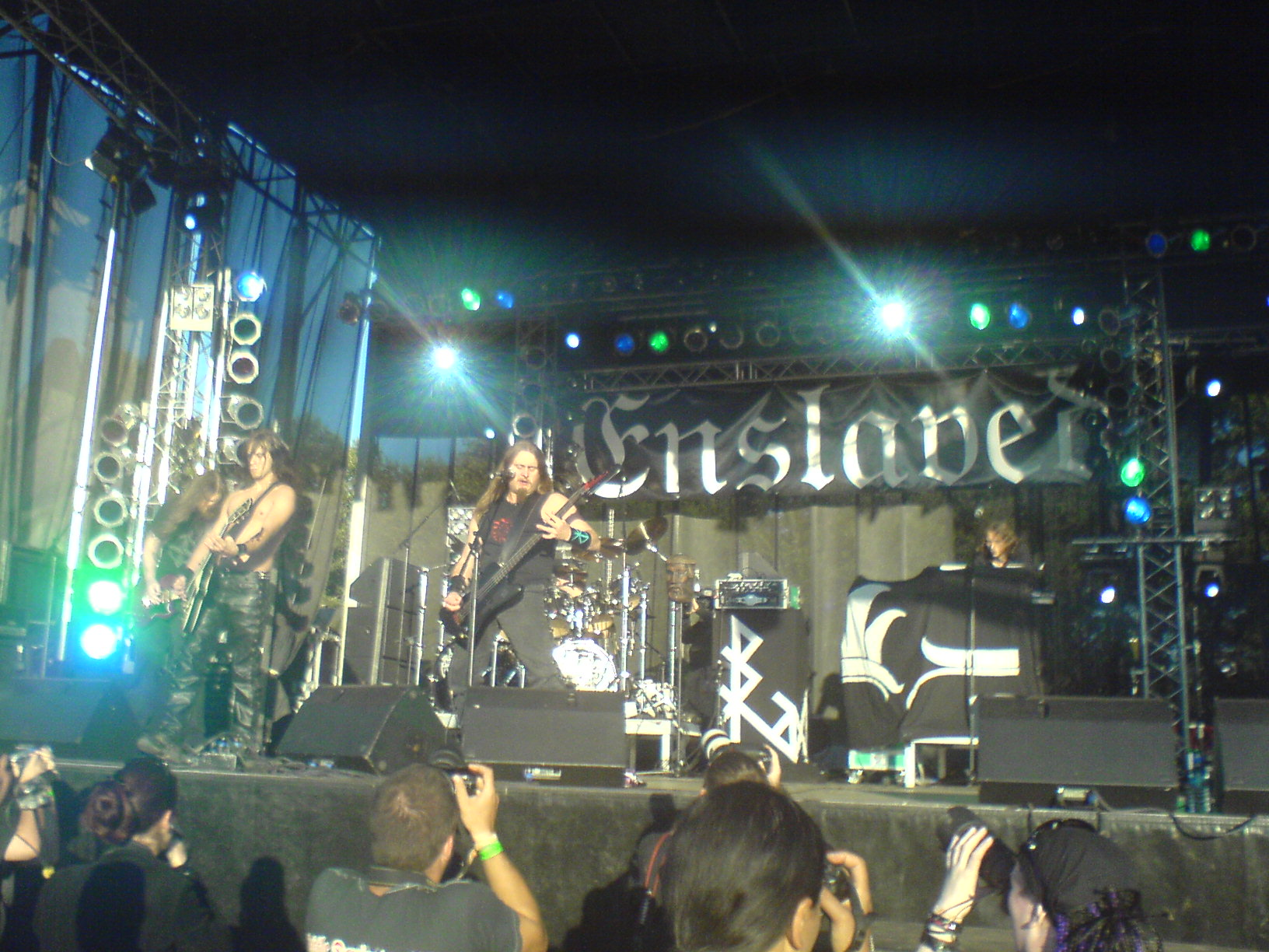 Camera phone image of Enslaved performing at the Wacken Open Air 2007. Visible band members (from the left): Ivar Bjørnson, Arve Isdal, Grutle Kjellson, and Herbrand Larsen